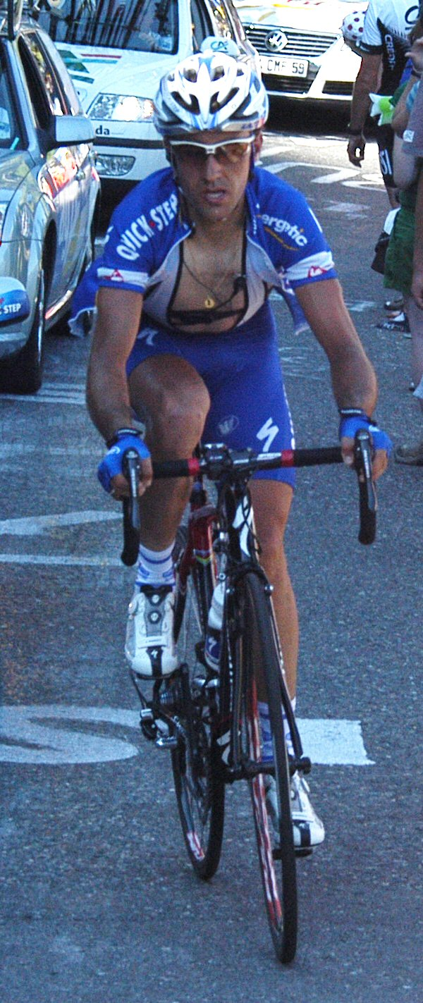 Carlos Barredo at stage 7 of the Tour de France 2007 on the Col de la Colombière.